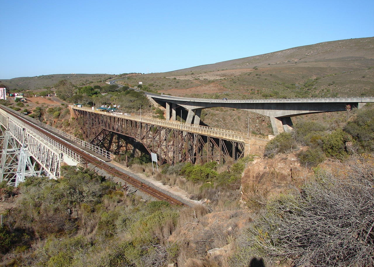 The Gourits River's triple bridges near Albertinia, Western Cape. The middle bridge is the oldest and served as both road and rail bridge until the leftmost (northern) railway bridge was built in the 1950s. The rightmost (southern) bridge is the N2 highway bridge that was built in the 1970s. Today the unused middle bridge is a popular bungee jumping spot.